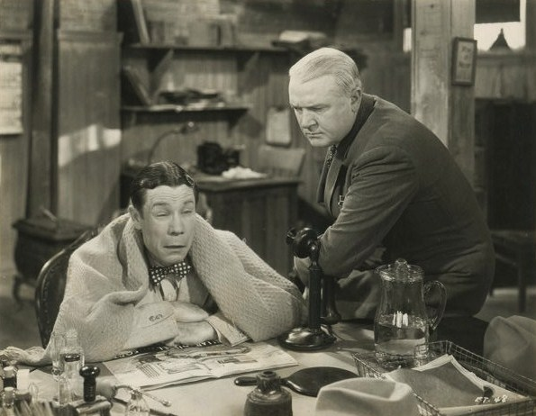 Joe E. Brown (left) & Joseph Crehan in Earthworm Tractors - publicity still (cropped)